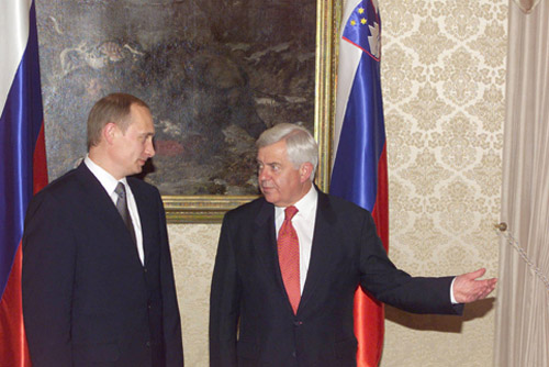 LJUBLJANA. President Putin with Milan Kucan, President of the Republic of Slovenia.